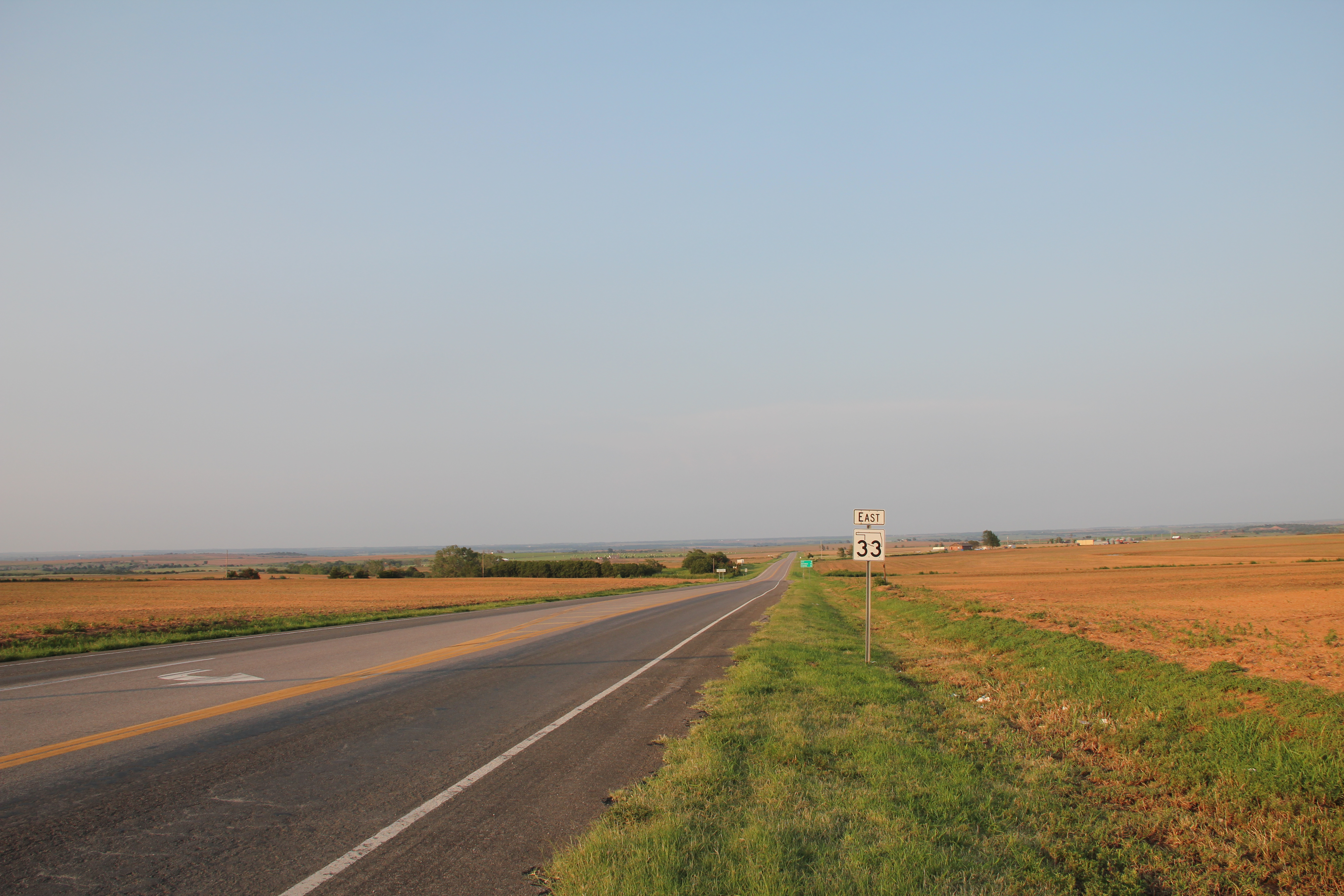 Looking northeast along Oklahoma State Highway 33 at its junction with Oklahoma State Highway 54 just east of Thomas, Oklahoma